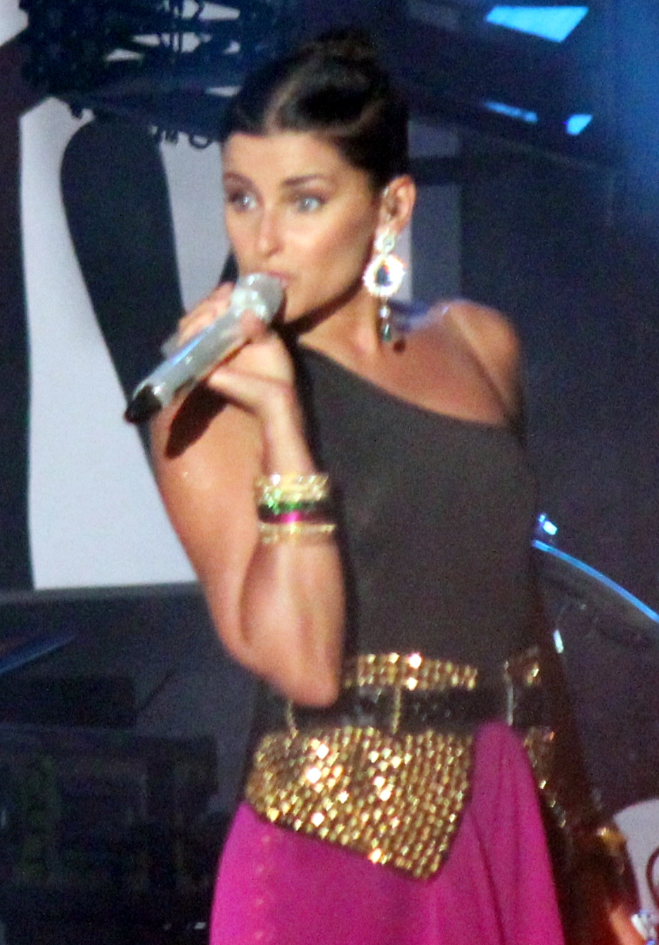 Nelly Furtado at the MTV Isle Of Malta in June 2012.